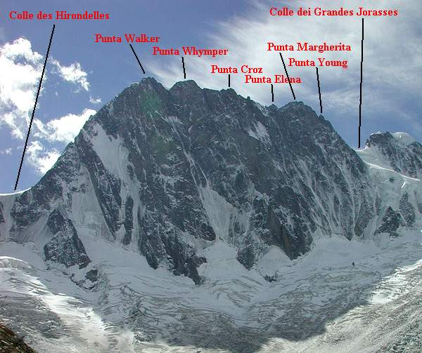 Nord face of Grandes Jorasses